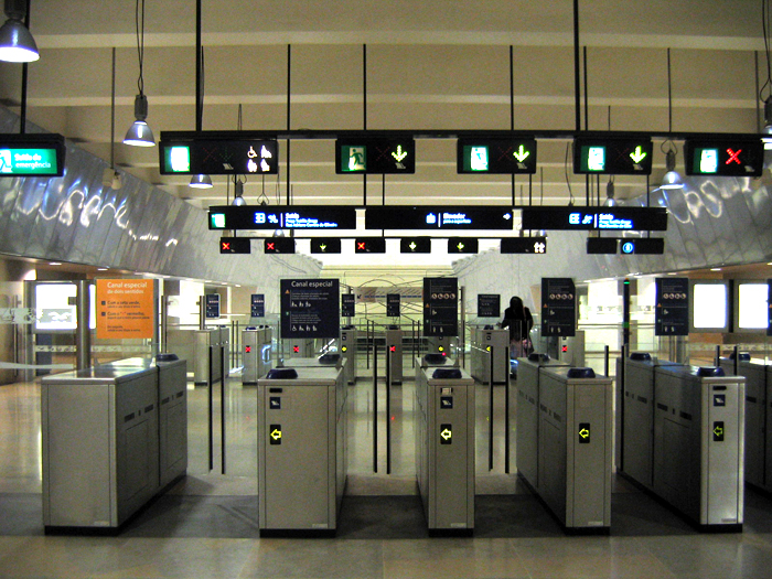 Entrance to Lisbon's underground station Alfornelos, Lisbon, Portugal